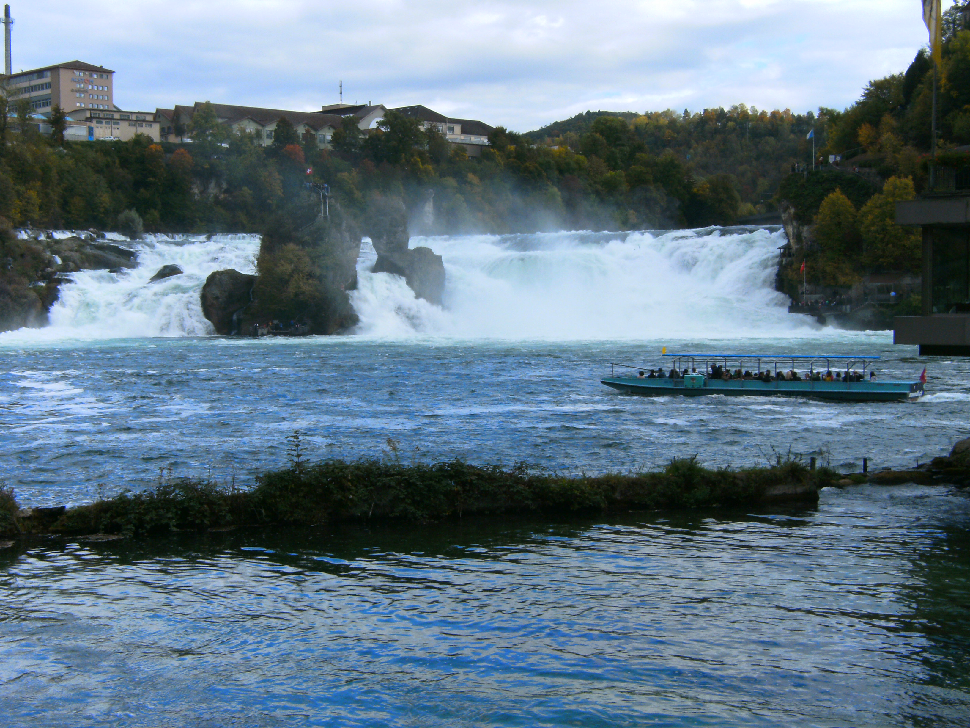 Schaffhausen, Rheinfall, Switzerland: boat is landing.